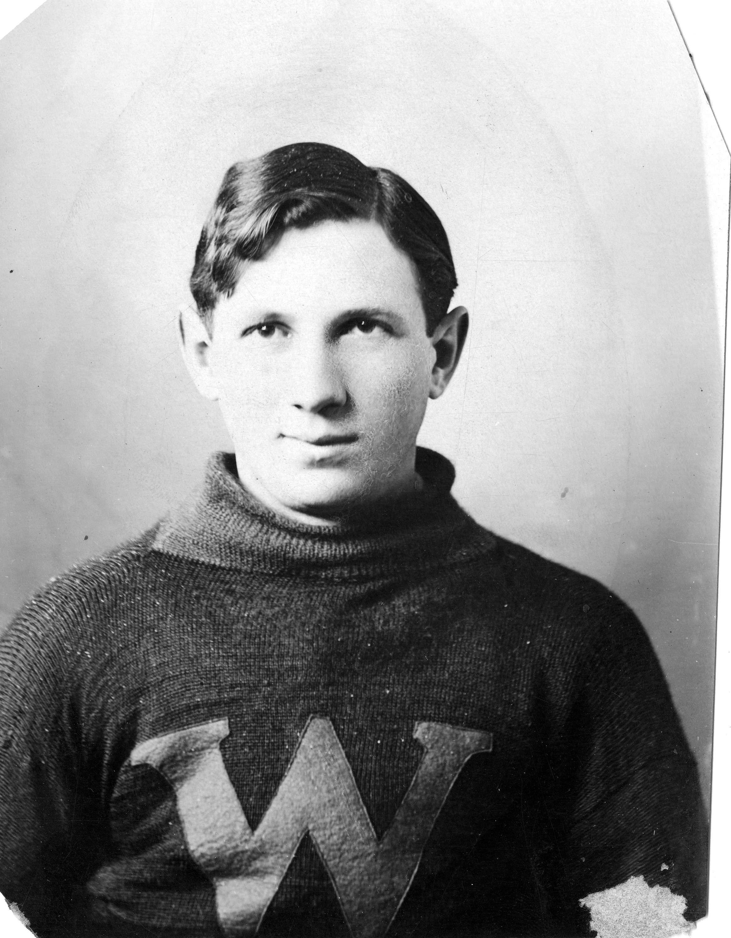 Photograph of ice hockey trainer Pete Muldoon, New Westminster Hockey Team Champions P.C.H.A.